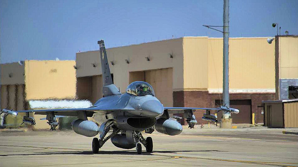 The 54th FG, received its first three-ship formation of F-16 Fighting Falcons at Holloman AFB on April 1, 2014. The 54th FG will operate two F-16 training squadrons at Holloman by the end of 2015. [USAF photo by A1C Aaron Montoya]